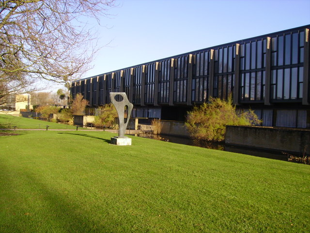 St Catherine's College, Oxford Designed by the Danish architect Arne Jacobsen in the 1960s, St Catherine's College is Grade I listed.